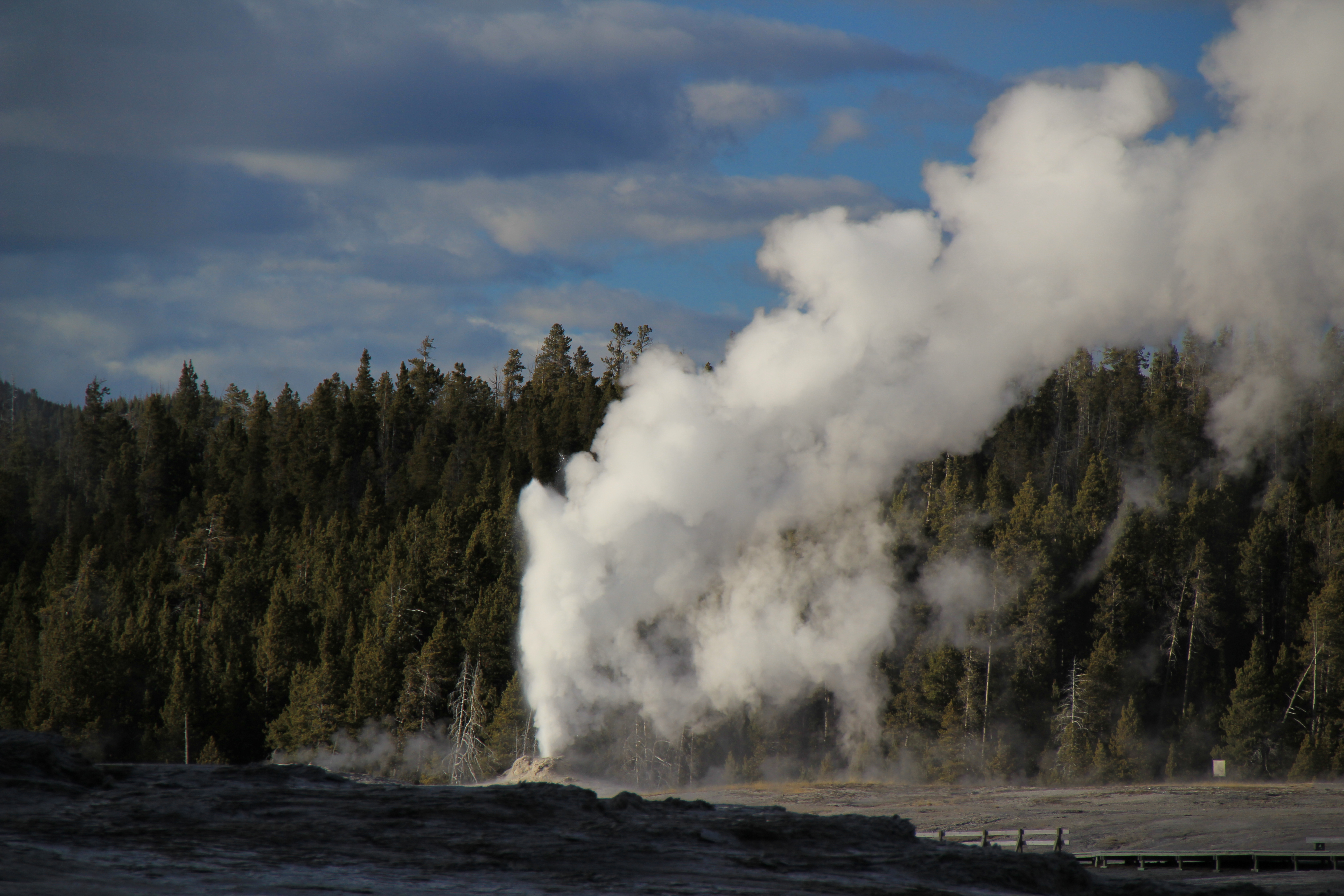 Eruption of the Beehive Geyser in Yellowstone National Park